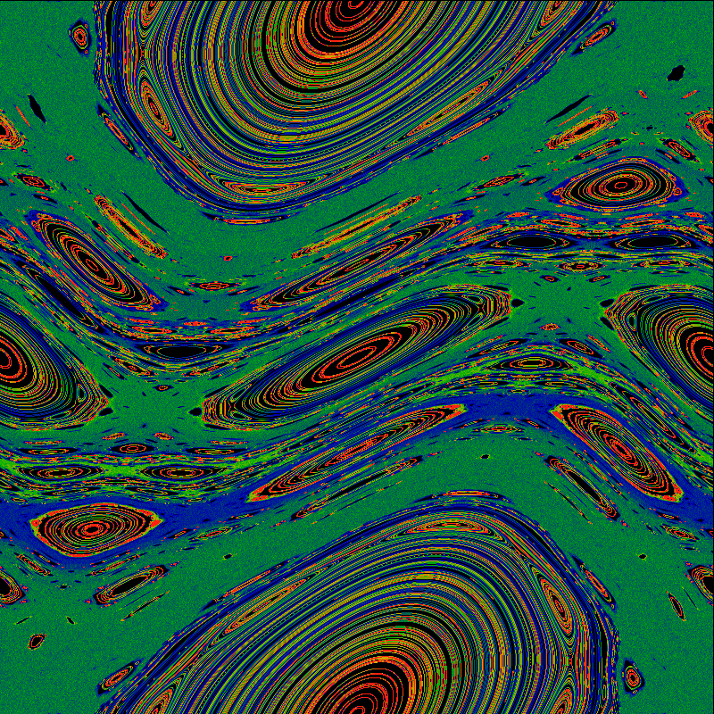 Image of the Chirikov standard map for K=0.971635